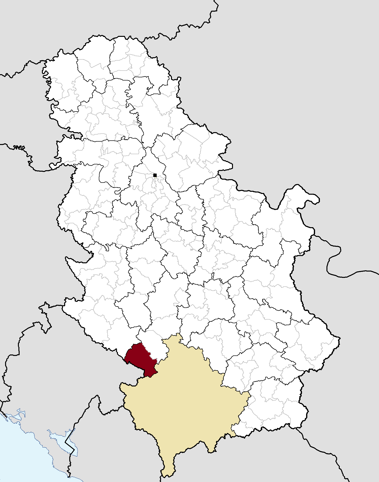 Municipal location in Serbia